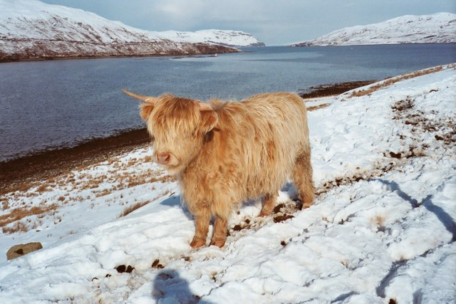 On the shores of Loch Ainort. Young Highland cow, Moll headland, southern tip of Raasay and Scalpay in the background.